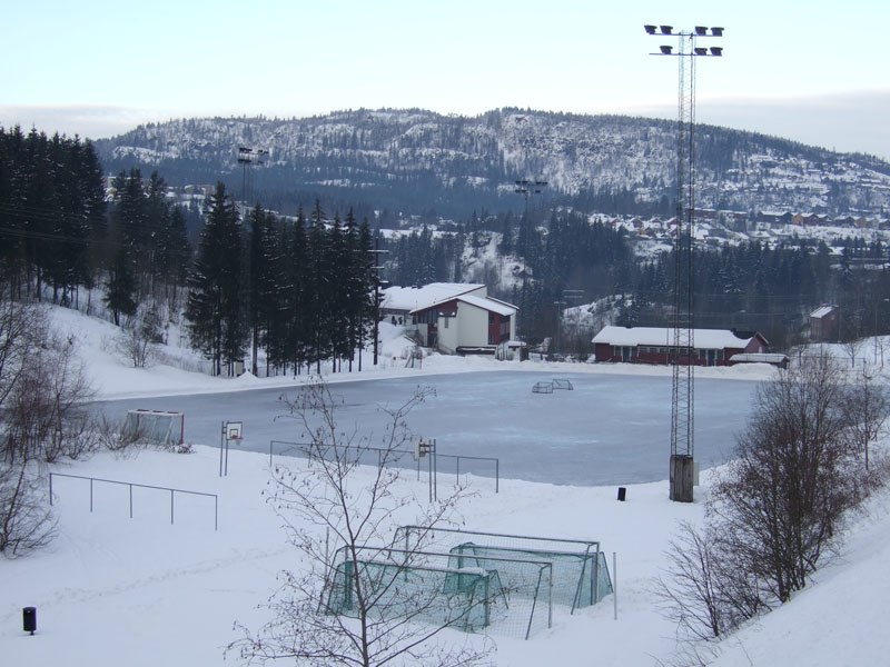 A picture of a small soccer field/ice rink in Bærum, Norway, called Helsetbanen